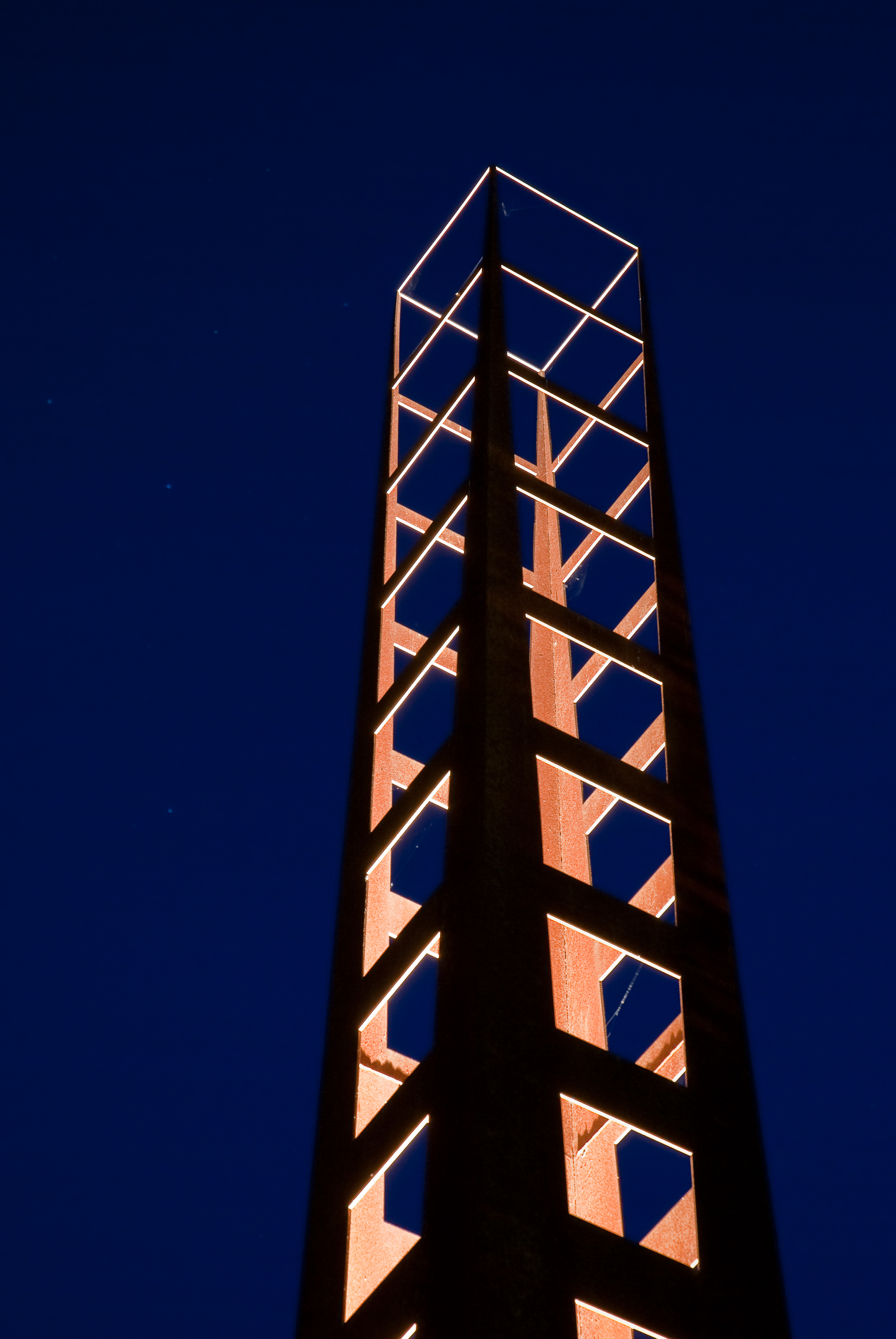 Hubert Lampert, Würfelturm, Seeanlage am Hafen Hard, 2004